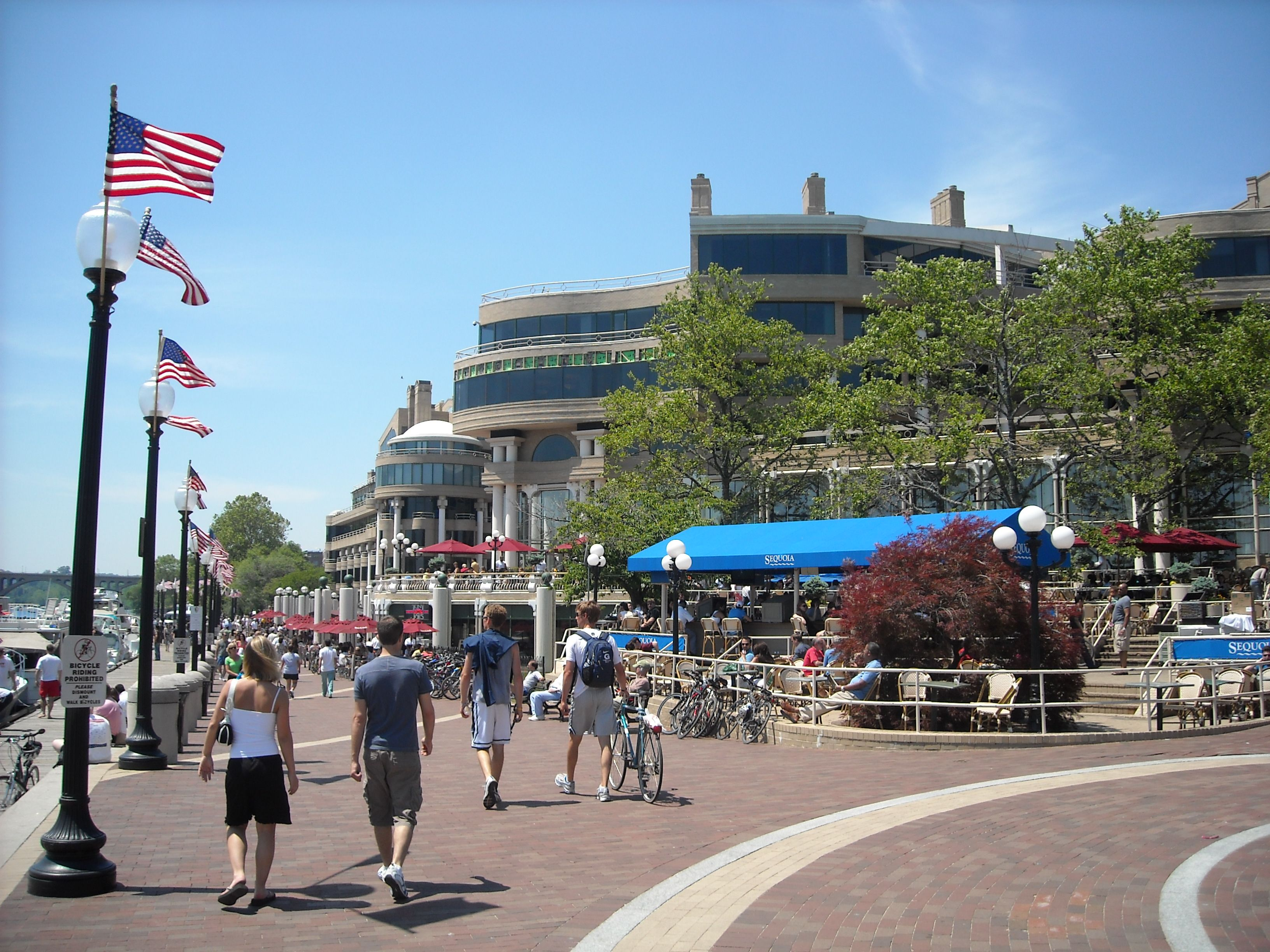 Washington Harbour in the Georgetown neighborhood of Washington, D.C.